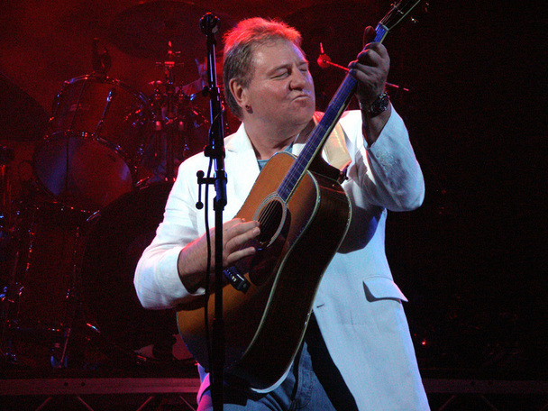 Greg Lake in concert, Nov. 2005 in Dartford, UK. Photo by Lrheath